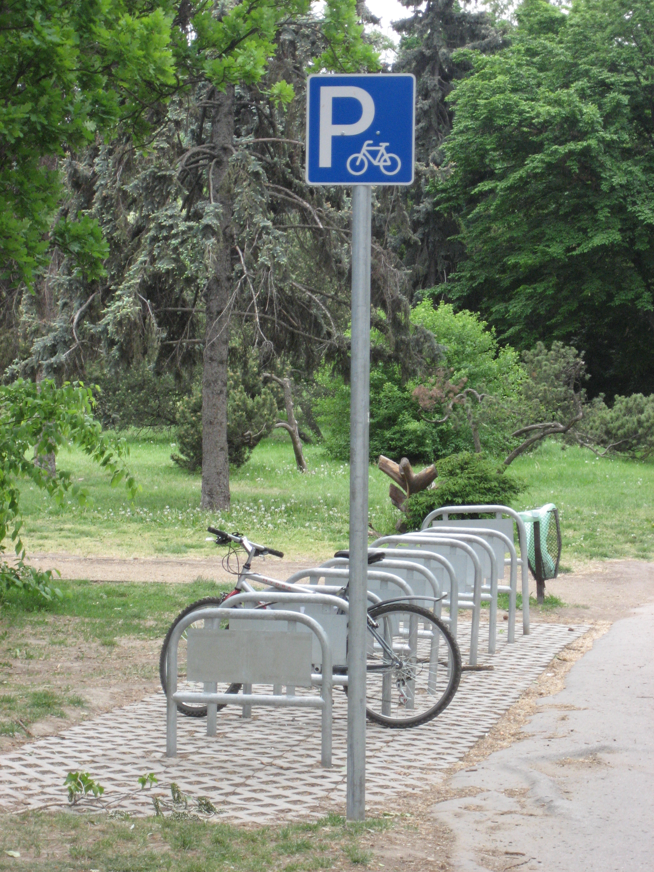 Bicycle parking lots on Margaret island in Budapest, Hungary